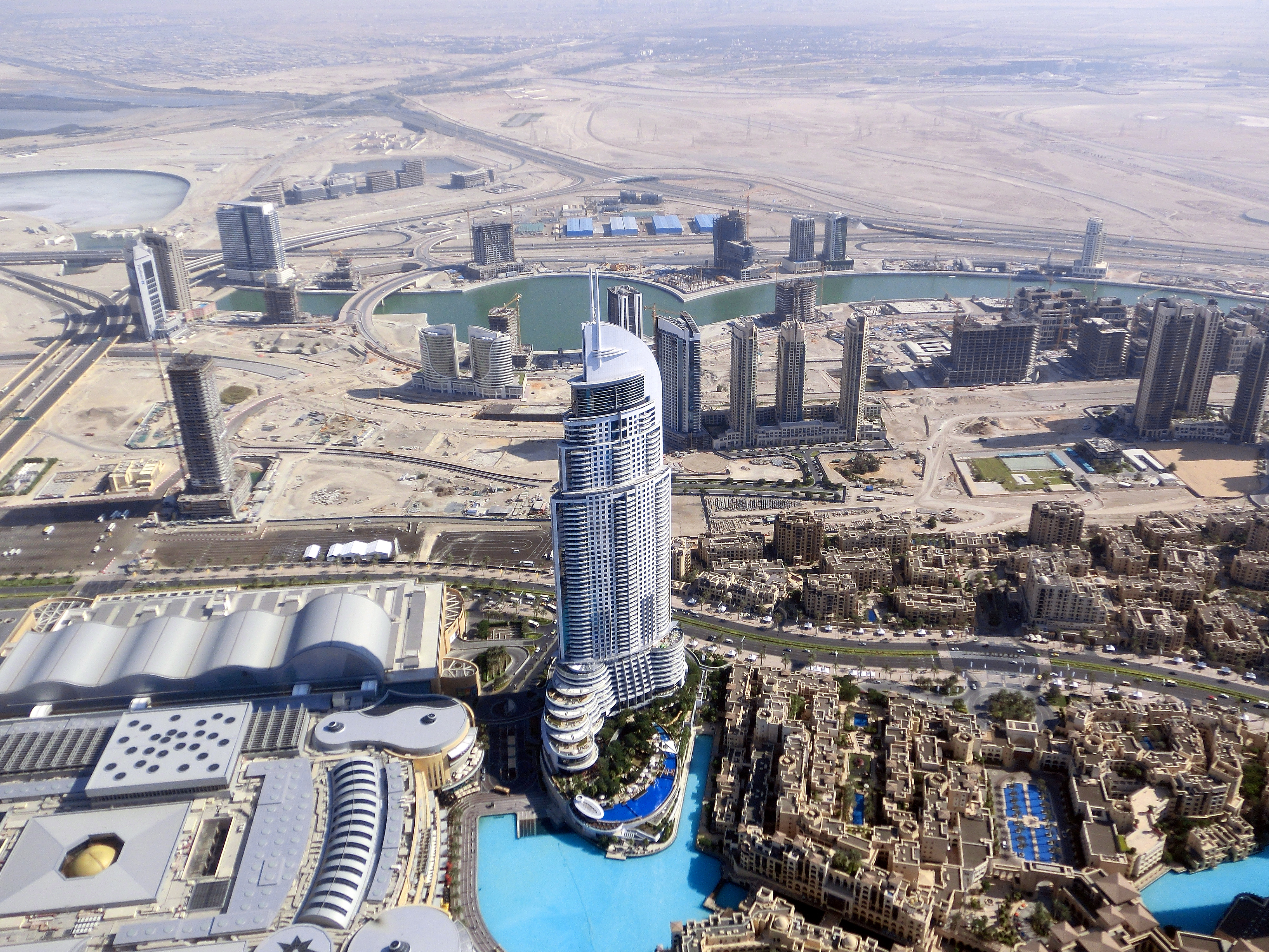 Dubai Downtown 2012 - The Address Hotel